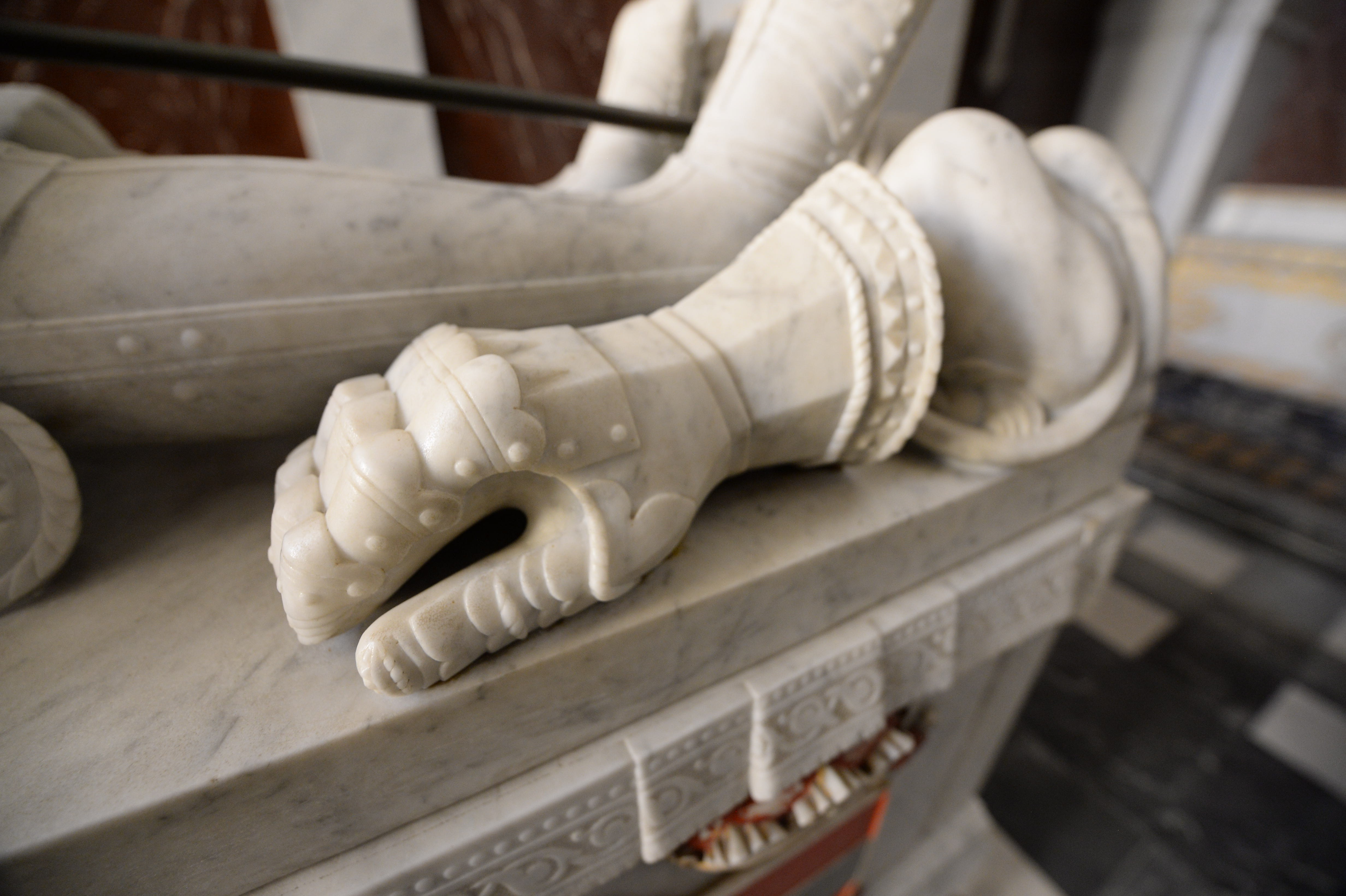 Armour globe of Juan de Austria, El Escorial, Spain